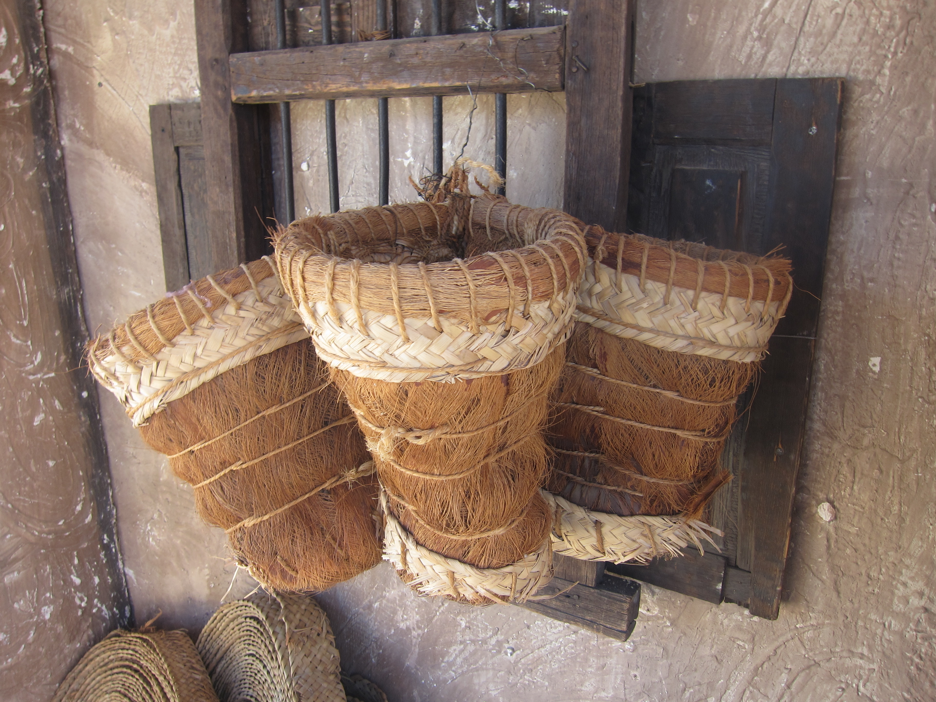 Saudi Culture - സൗദി സംസ്കാരം